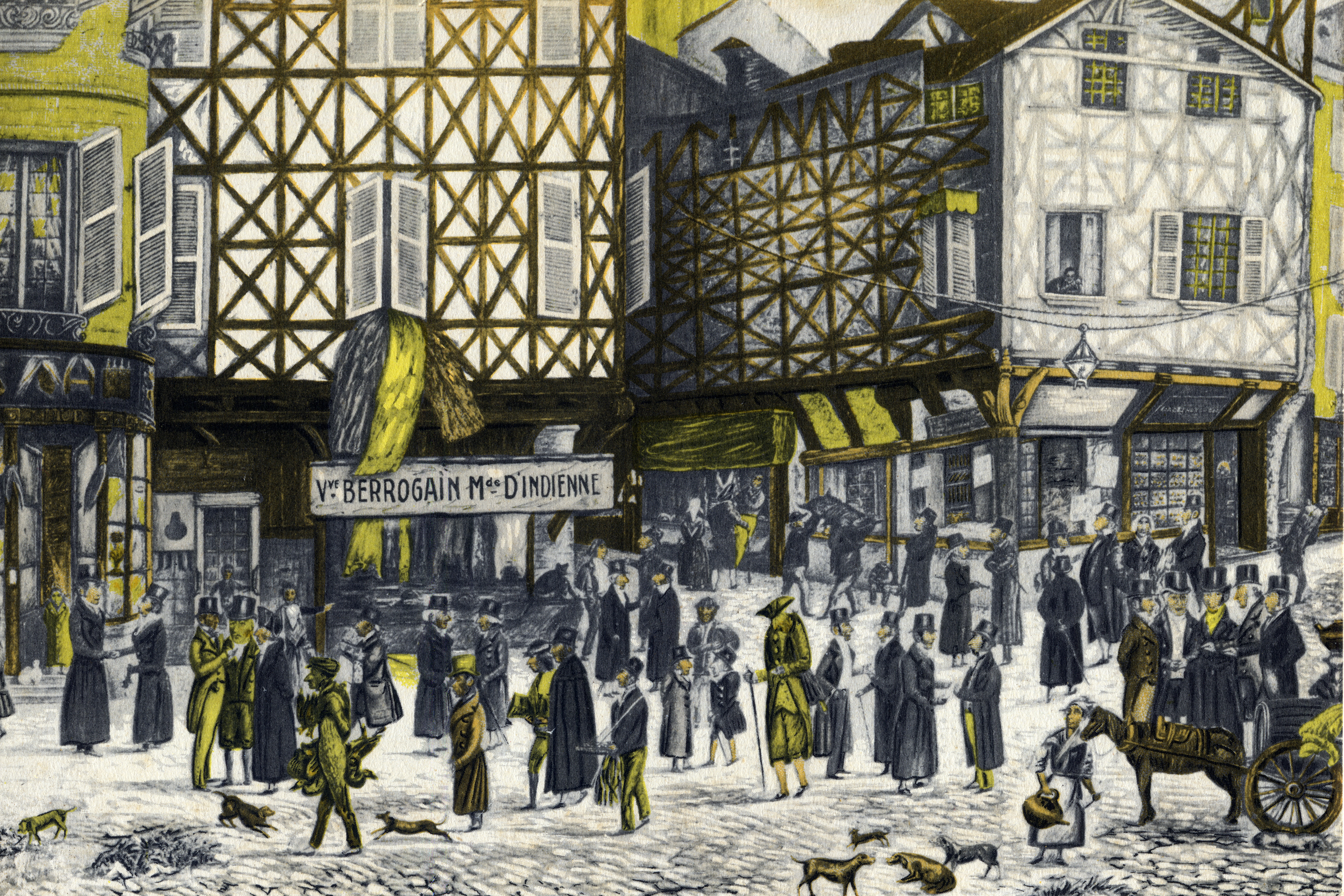 The "cinq cantons" place as it was in the late nineteenth century. We can recognize the very ancient Berrogain store at the corner Orbe street.